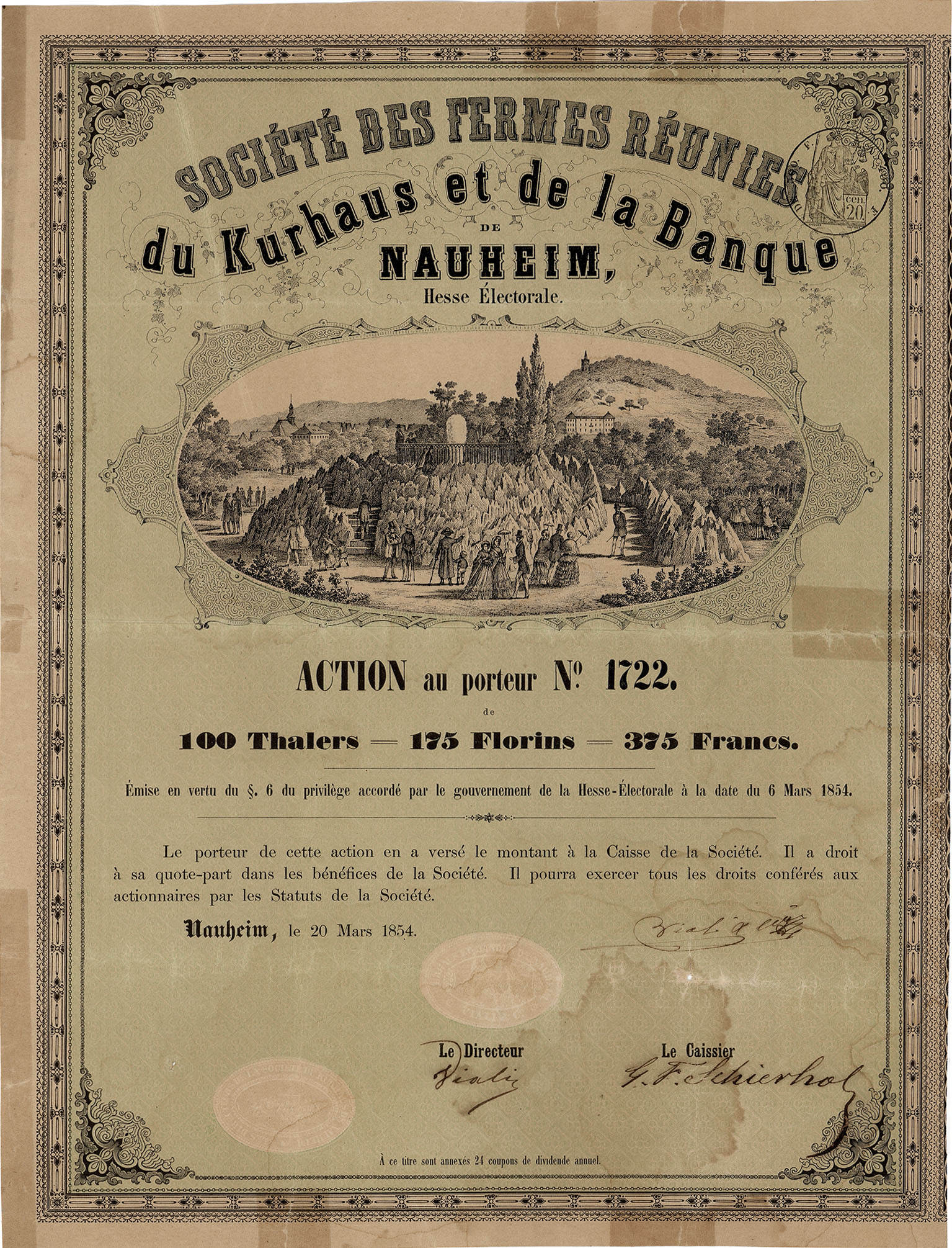 Share of the Société des Fermes Réunies du Kurhaus et de la Banque de Nauheim, issued 20. March 1854